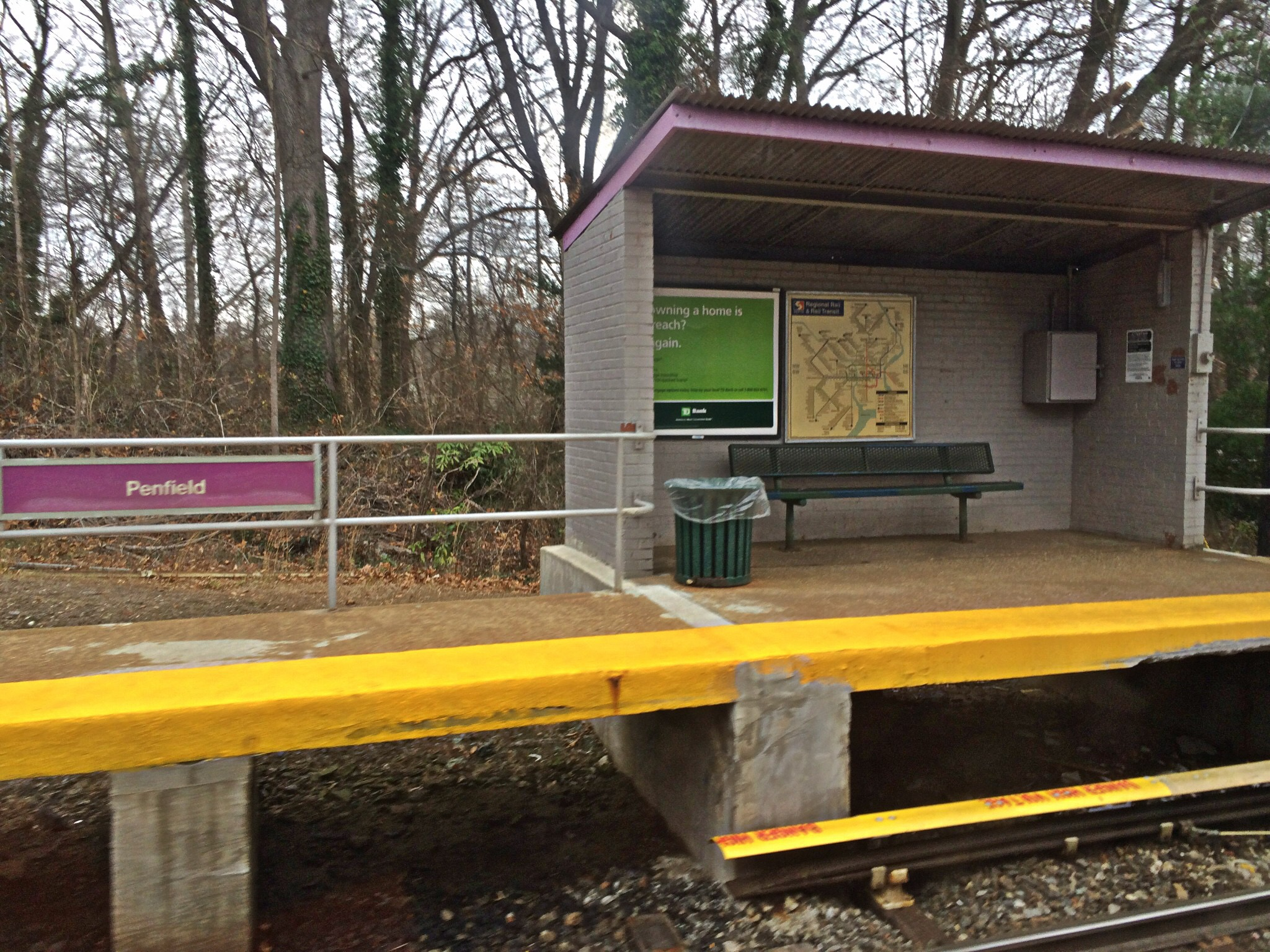 Northbound platform Penfield Station (NHSL)